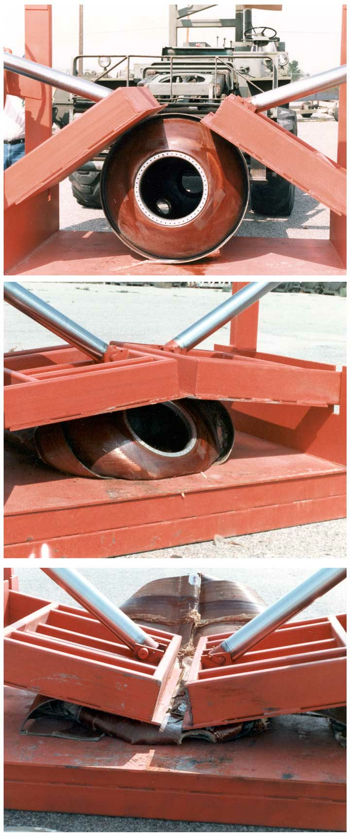 Destruction of a Pershing missile case. 3 images are combined to this image.